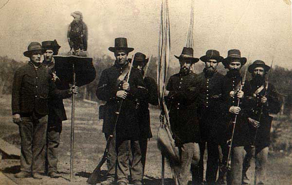 The Wisconsin 8th Volunteer Infantry Eagle Regiment with Old Abe at Vicksburg in July 1863. Eagle-bearer Edward Homaston is probably holding the perch. Sgt Ambrose Armitage is third from left.